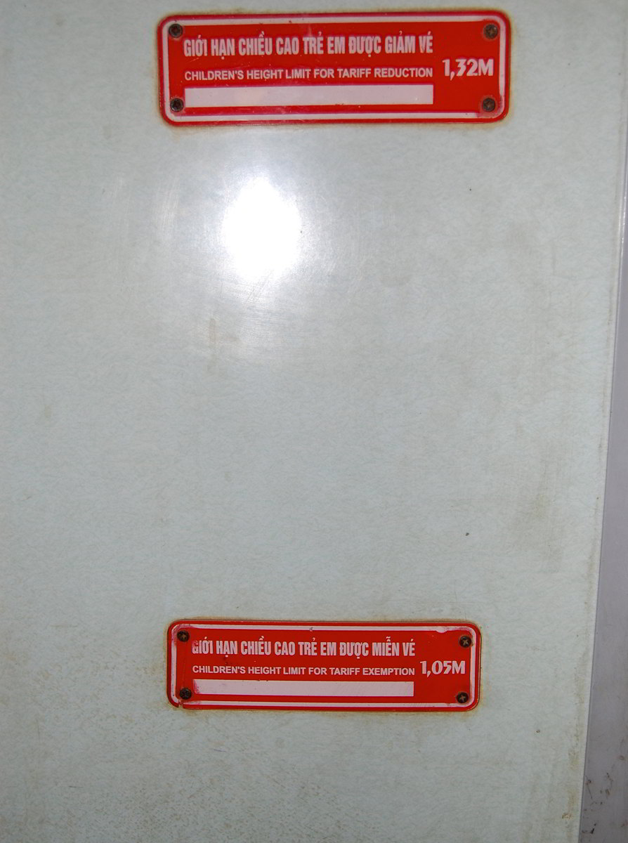 2010 in the night train of the Yunnan Railway from Hanoi to Lào Cai, reduced fare at a height up to 1.32 m, less than 1.05 free.